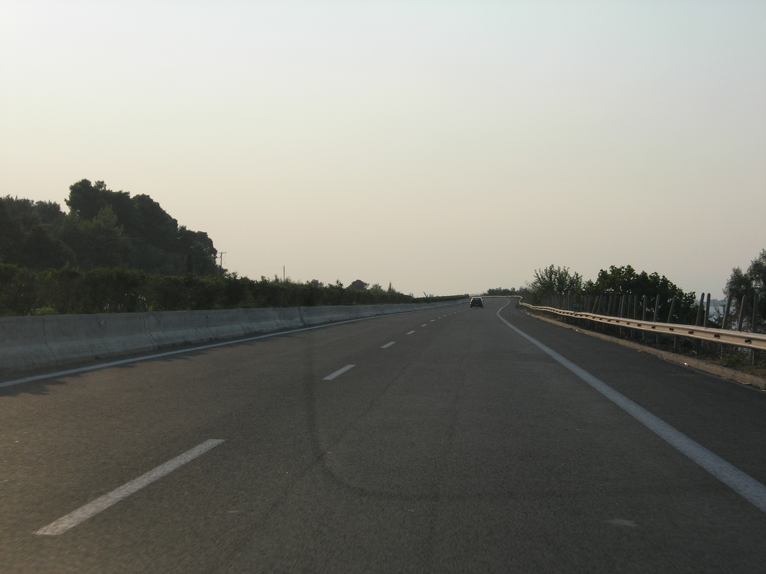 A1 northbound, near Atalanti.